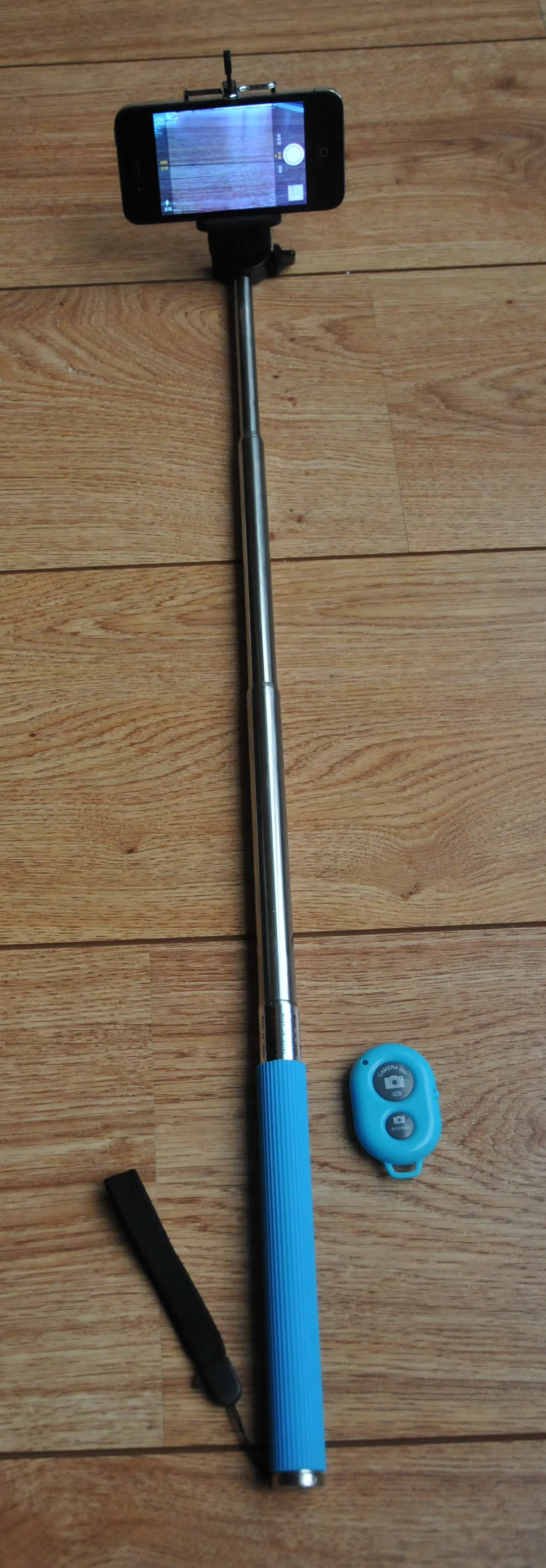 Half expanded Selfie Stick